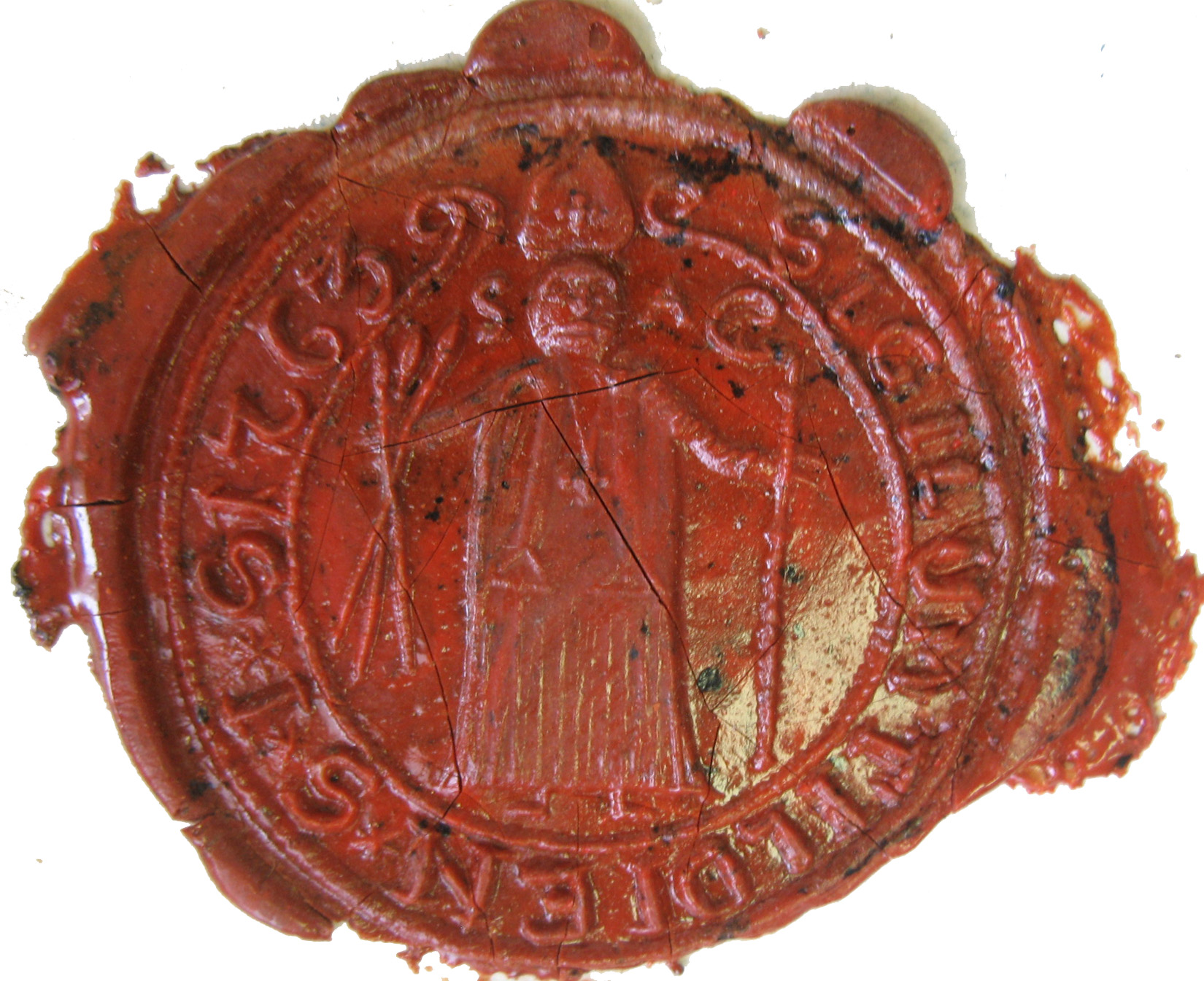 seal of Tild from 1763